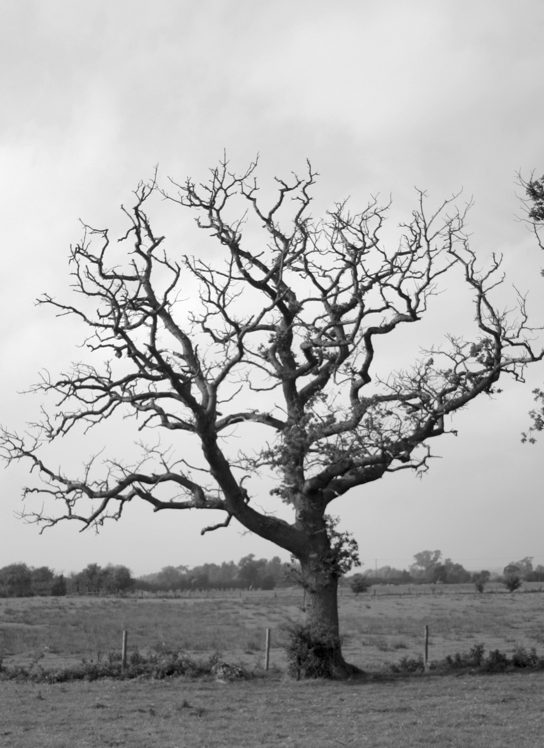 A part-dead oak tree near Earls Barton, Northants. Picture by R Neil Marshman